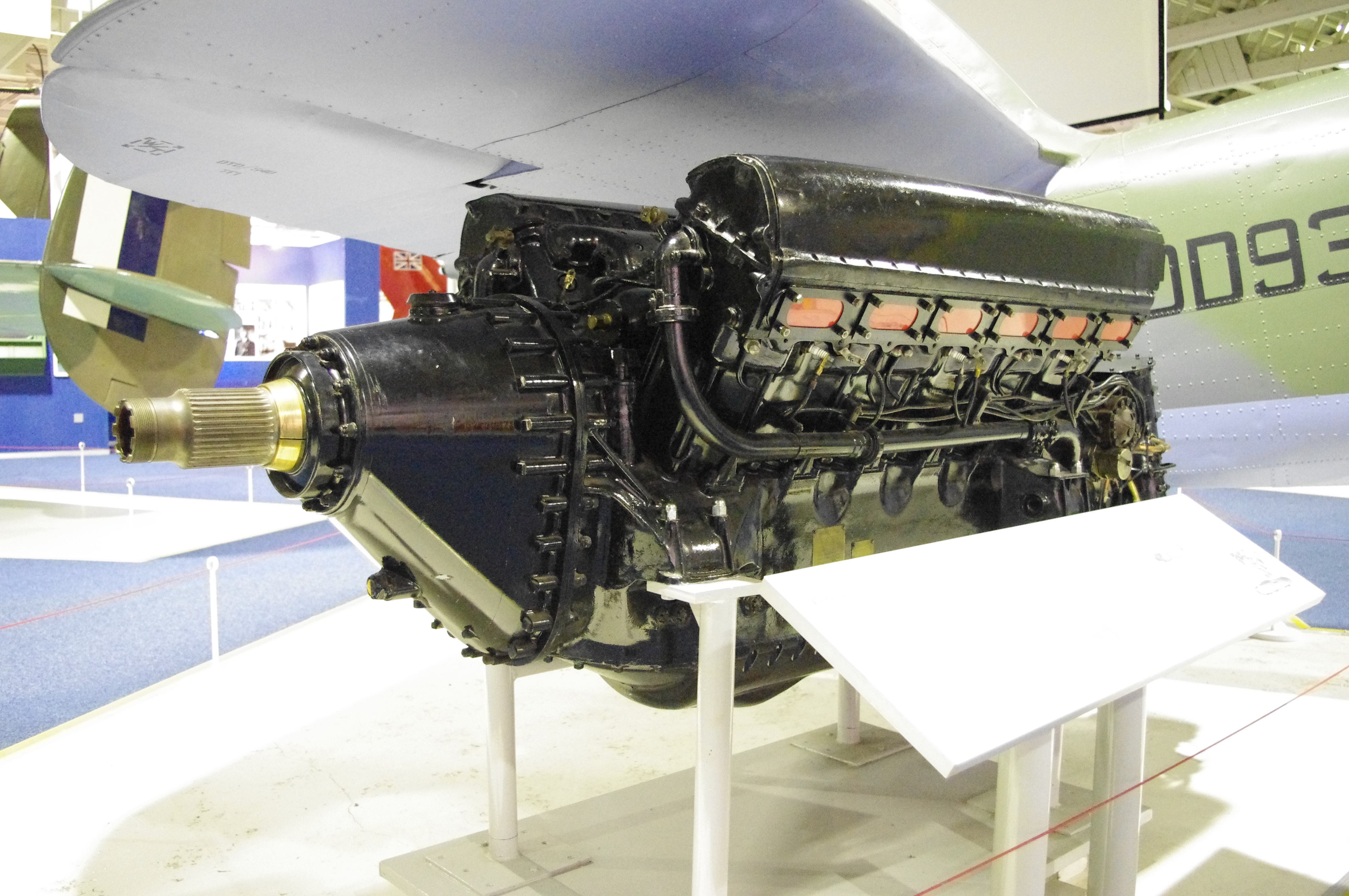 Rolls-Royce R engine, at the Royal Air Force Museum London.